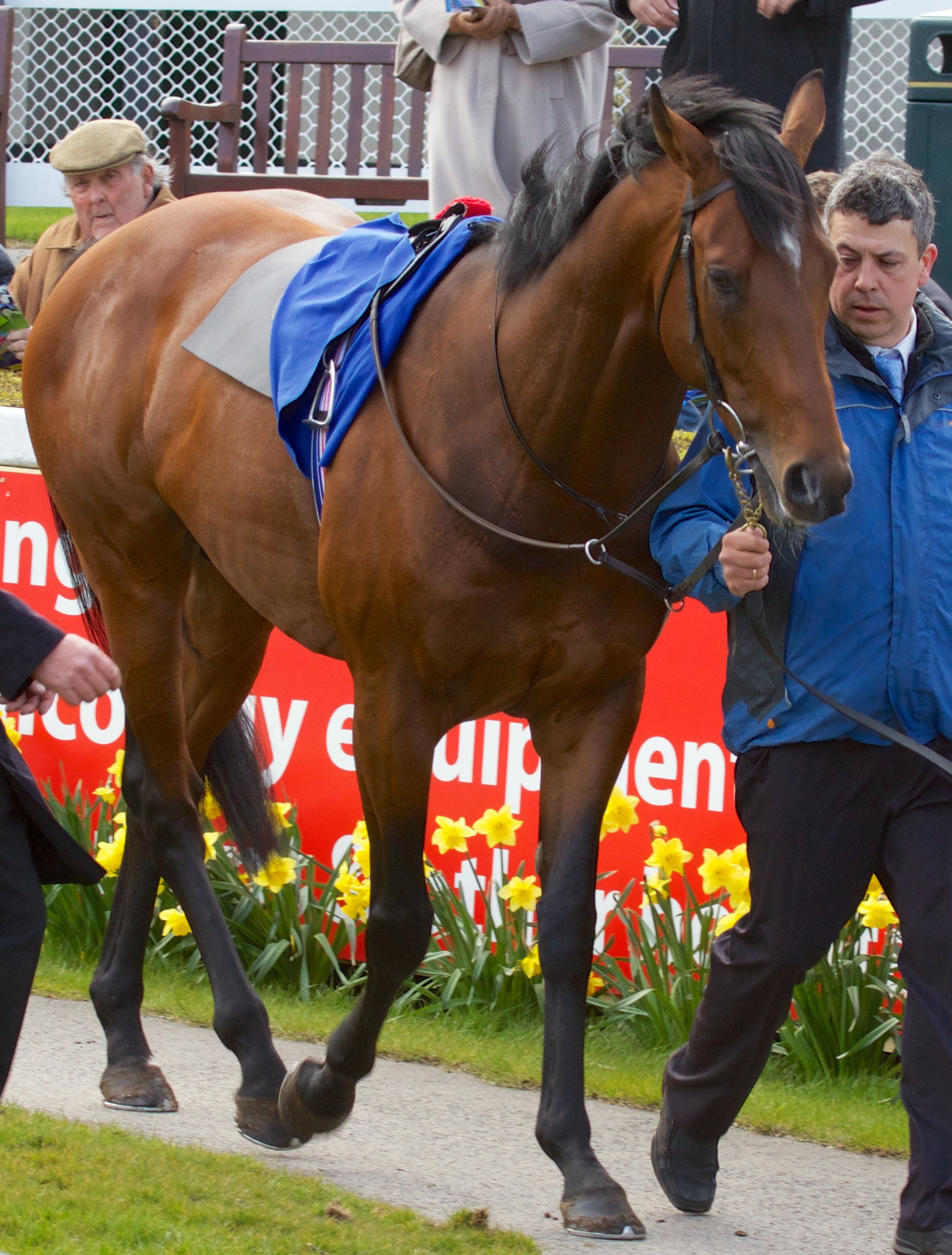 Declaration of War, looking plenty big enough in the paddock before his win in the Listed Heritage Stakes at Leopardstown in 2013.